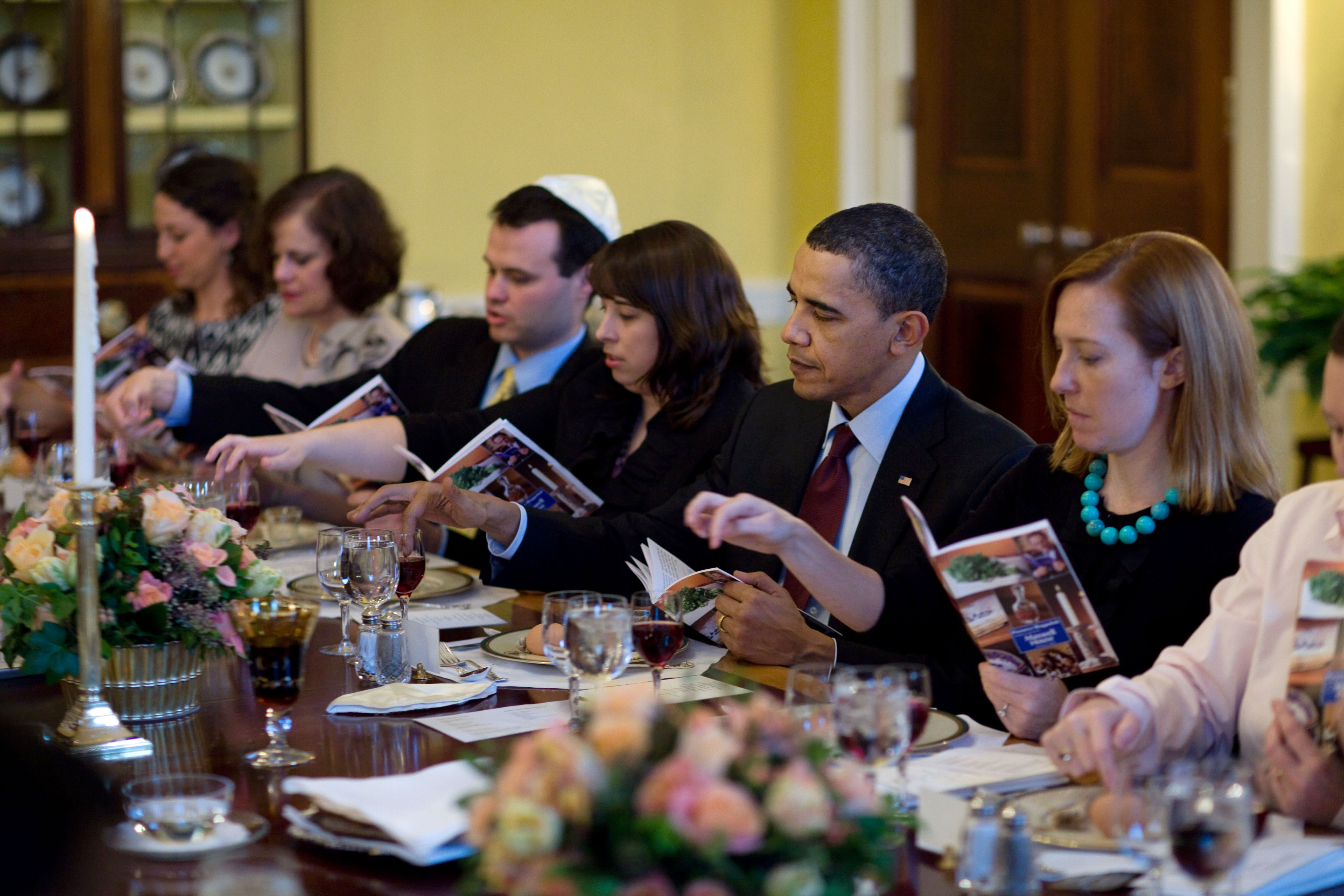 United States President Barack Obama and the First Family mark the beginning of Passover with a Seder with friends and staff in the Old Family Dining Room of the White House on 29 March 2010.